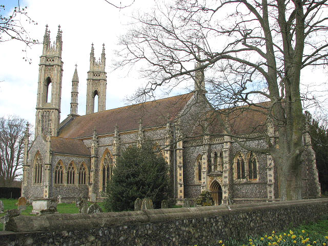 Parish church of St Michael and All Angels St Michaels, Booton, Norfolk, seen from the southeast